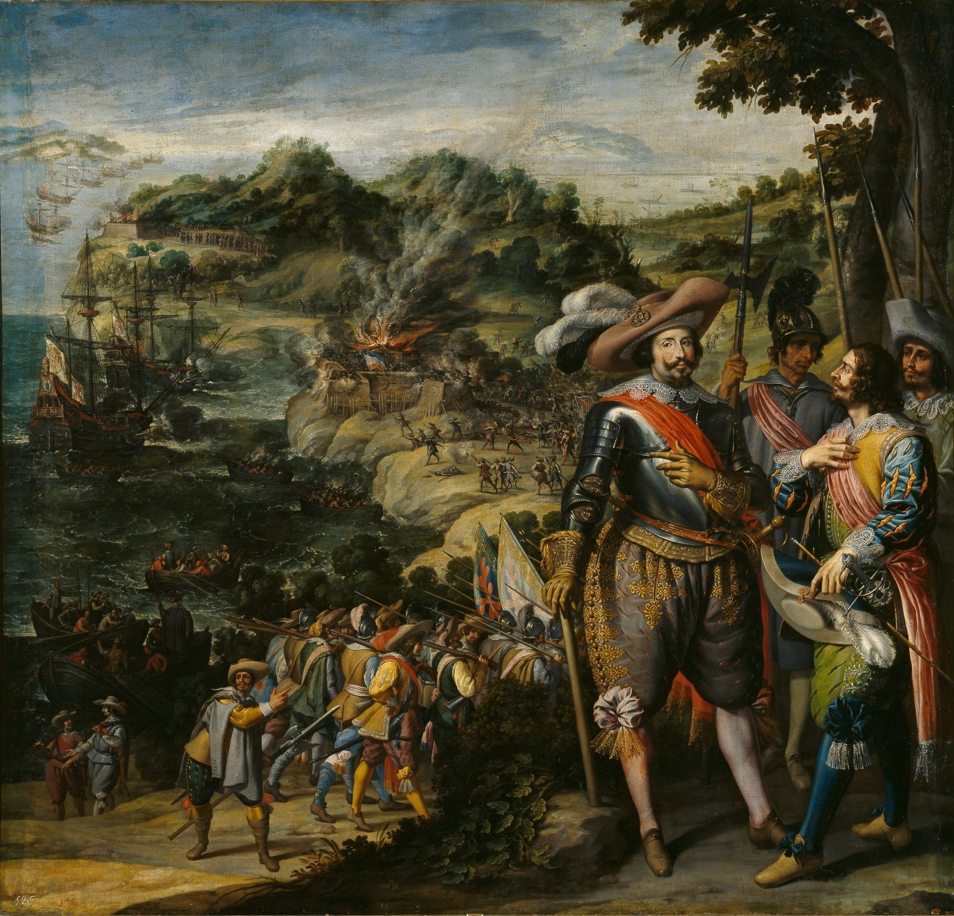 The spanish capture of Saint Kitts by Don Fadrique Álvarez de Toledo in 1629.